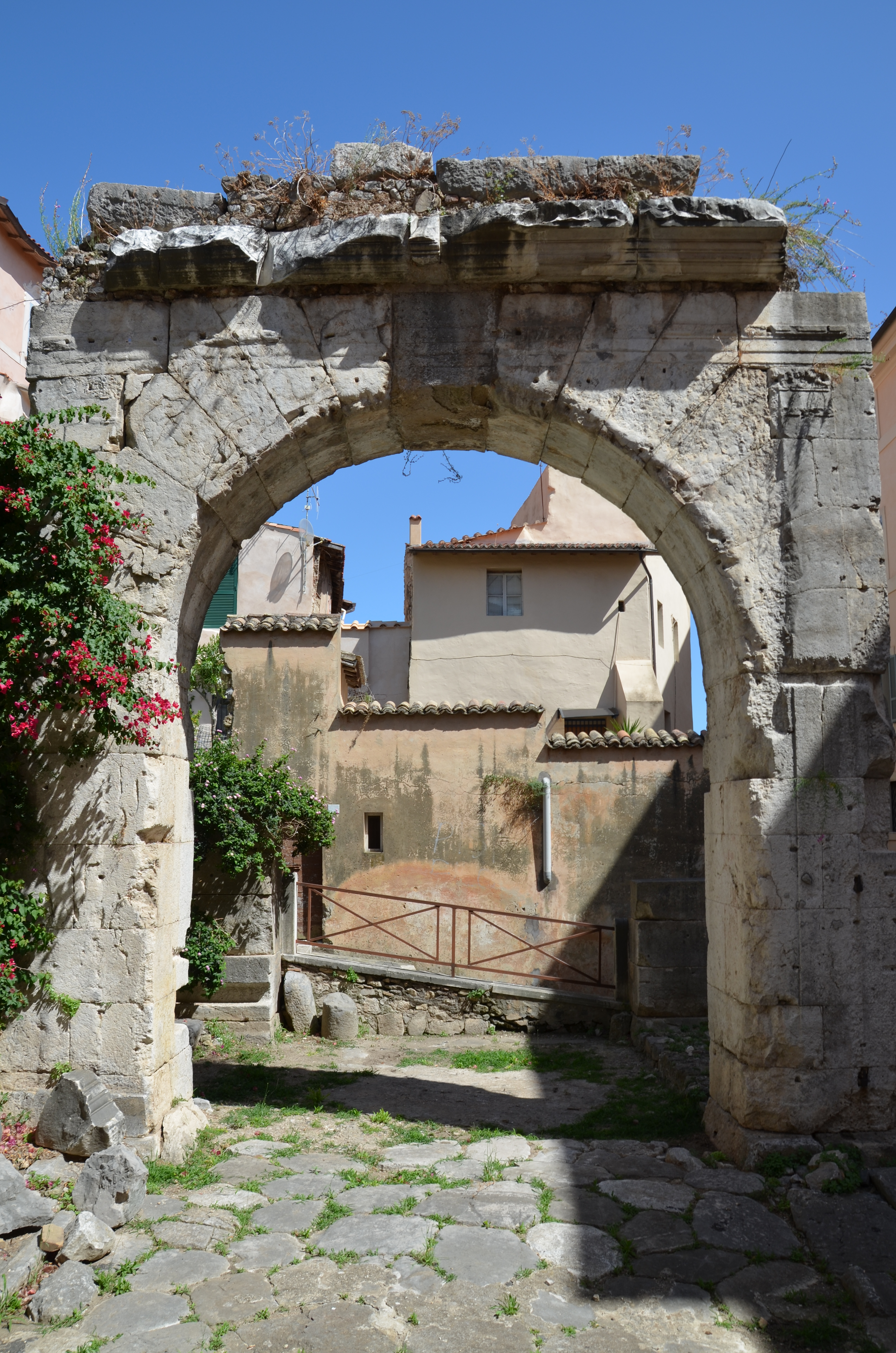 Remaining side of the quadrifrons (four-sided) arch under which lay a well-preserved stretch of the ancient Via Appia, Tarracina (Anxur), Terracina, Italy